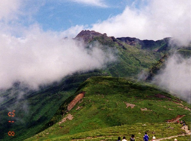 View of the top of Mount Chokai seen from the west. Lava dome in the canter.